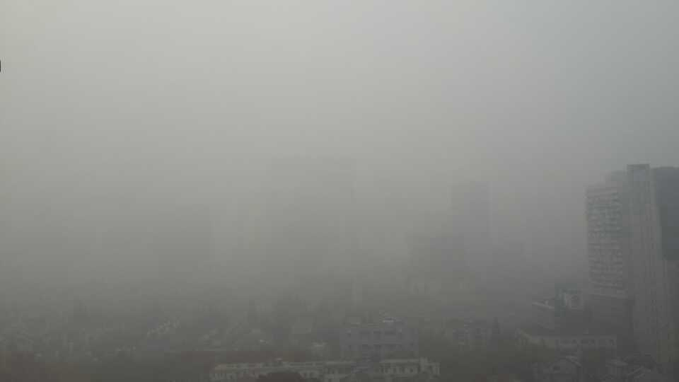 haze shrounds Shanghai，The photo was taken in Huangpu District, Shanghai.